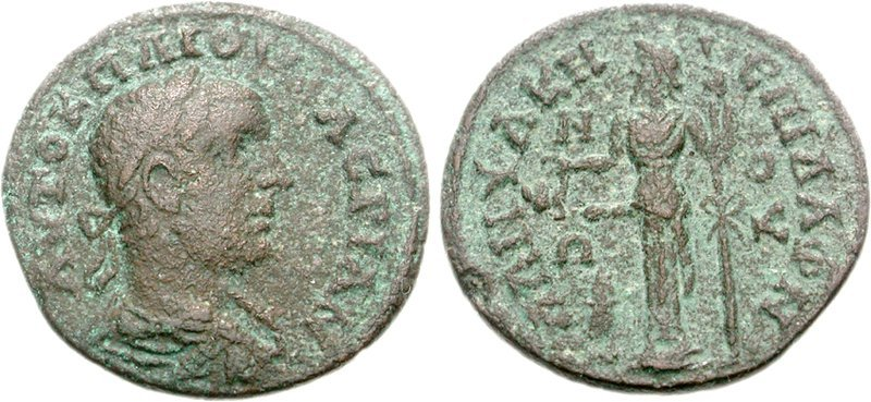 MYSIA, Lampsacus. Valerian I. AD 253-260. Æ 24mm (6.53 g, 3h). Daphnos, magistrate. Laureate, draped, and cuirassed bust right / Ithyphallic Priapus standing left, holding cantharus and filleted thyrsus; lighted altar to left. Cf. SNG France 1296-7 (Gallienus); SNG Copenhagen 244 (same dies). VF, brown surfaces with green deposits, minor overall roughness.